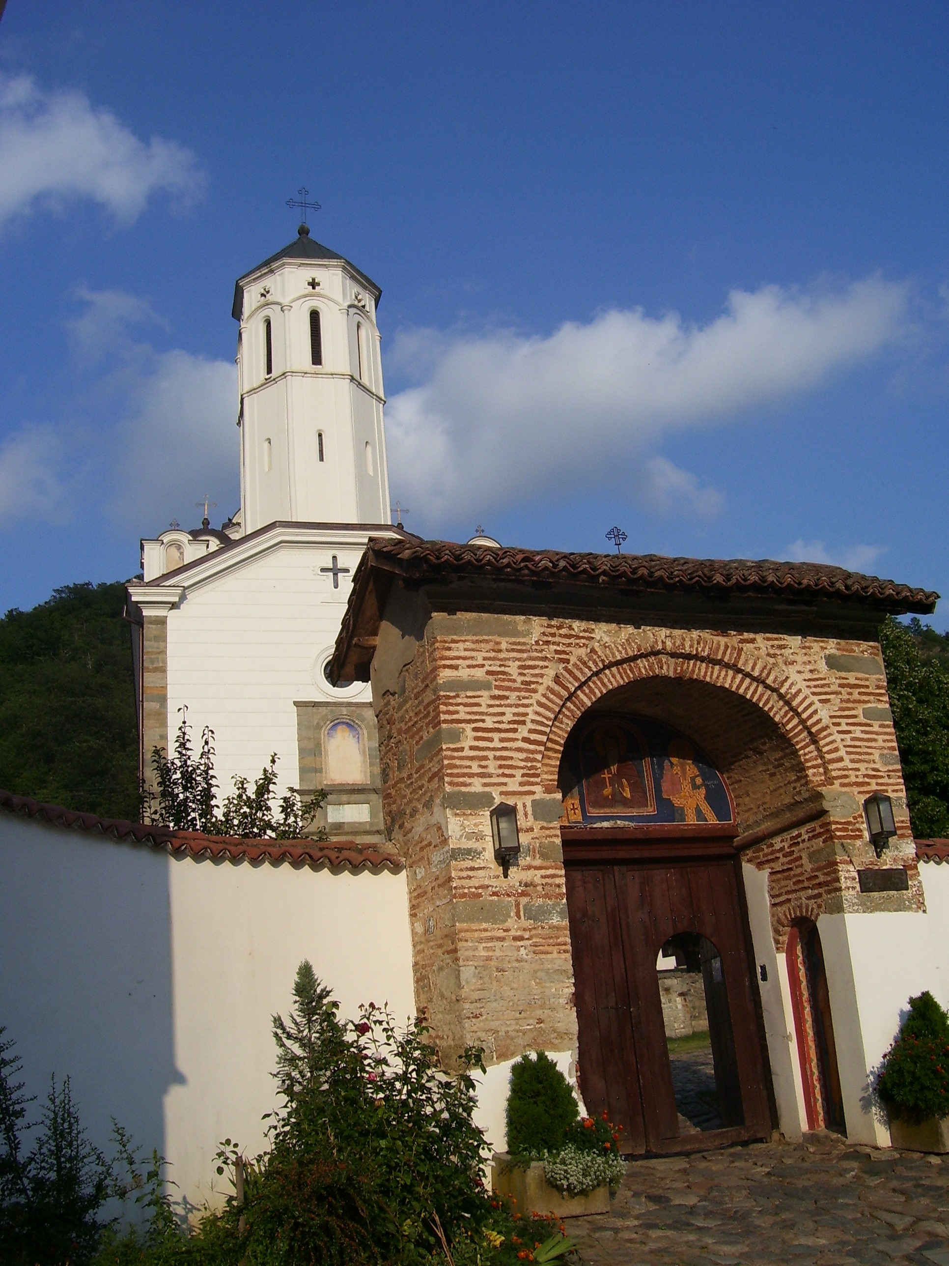 Prohor Pčinjski Monastery in Serbia